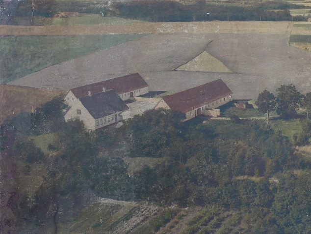 Store Hallegård 1954